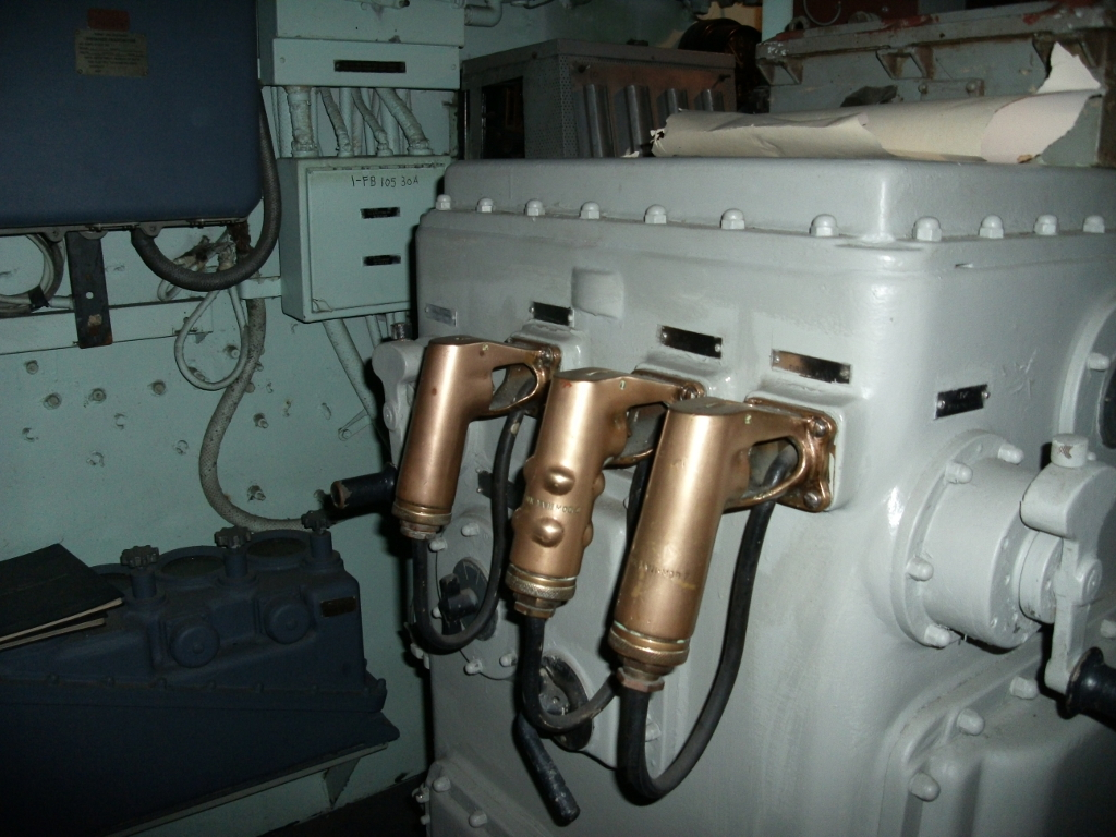 The Stable Element aboard the U.S.S. Kidd DD 661 in 2013.